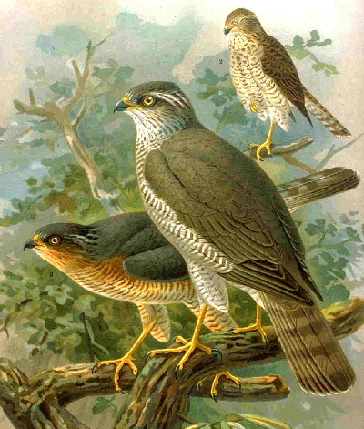 Sparrowhawk